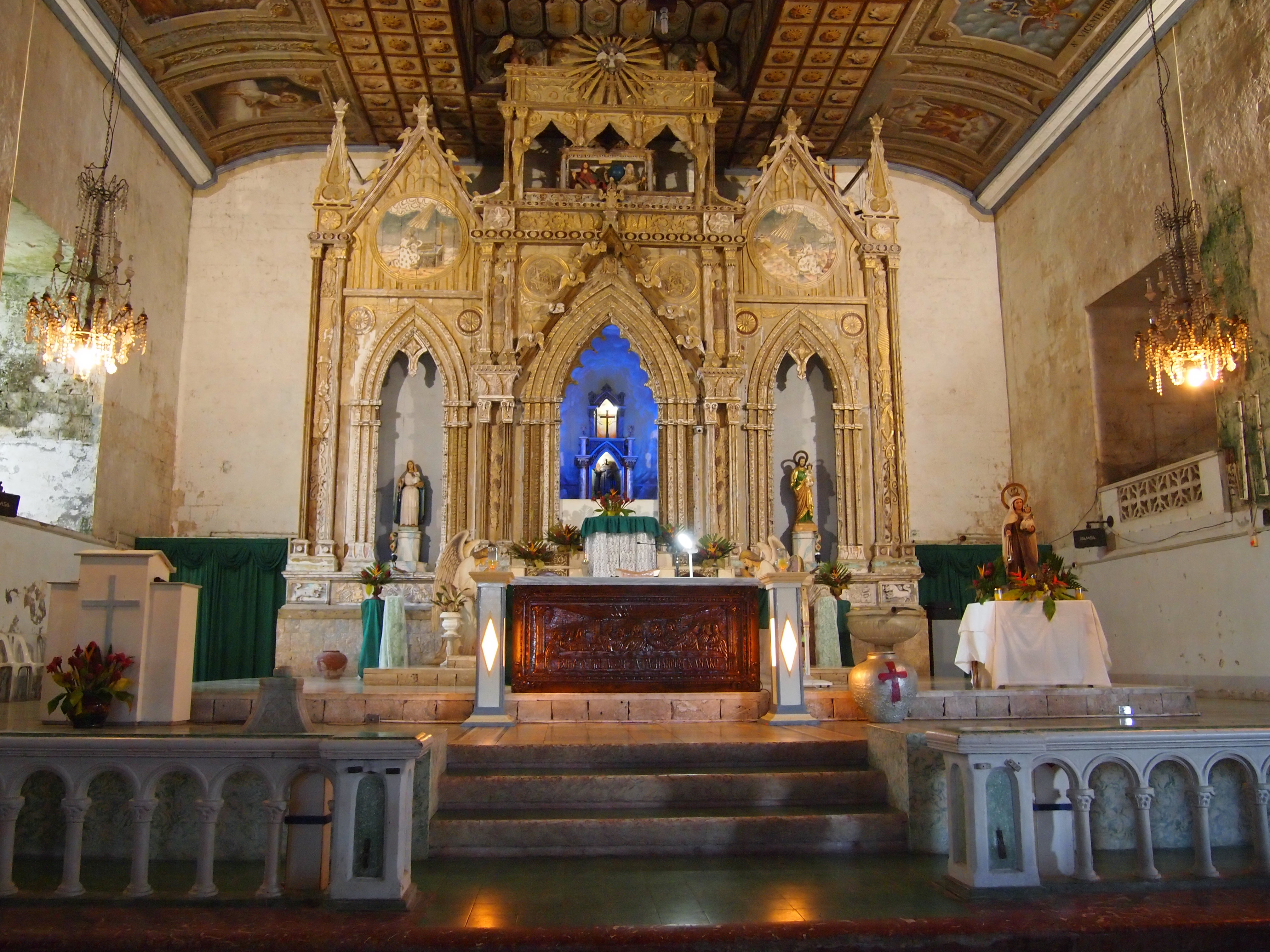 The main altar features two Stars of David in the details.